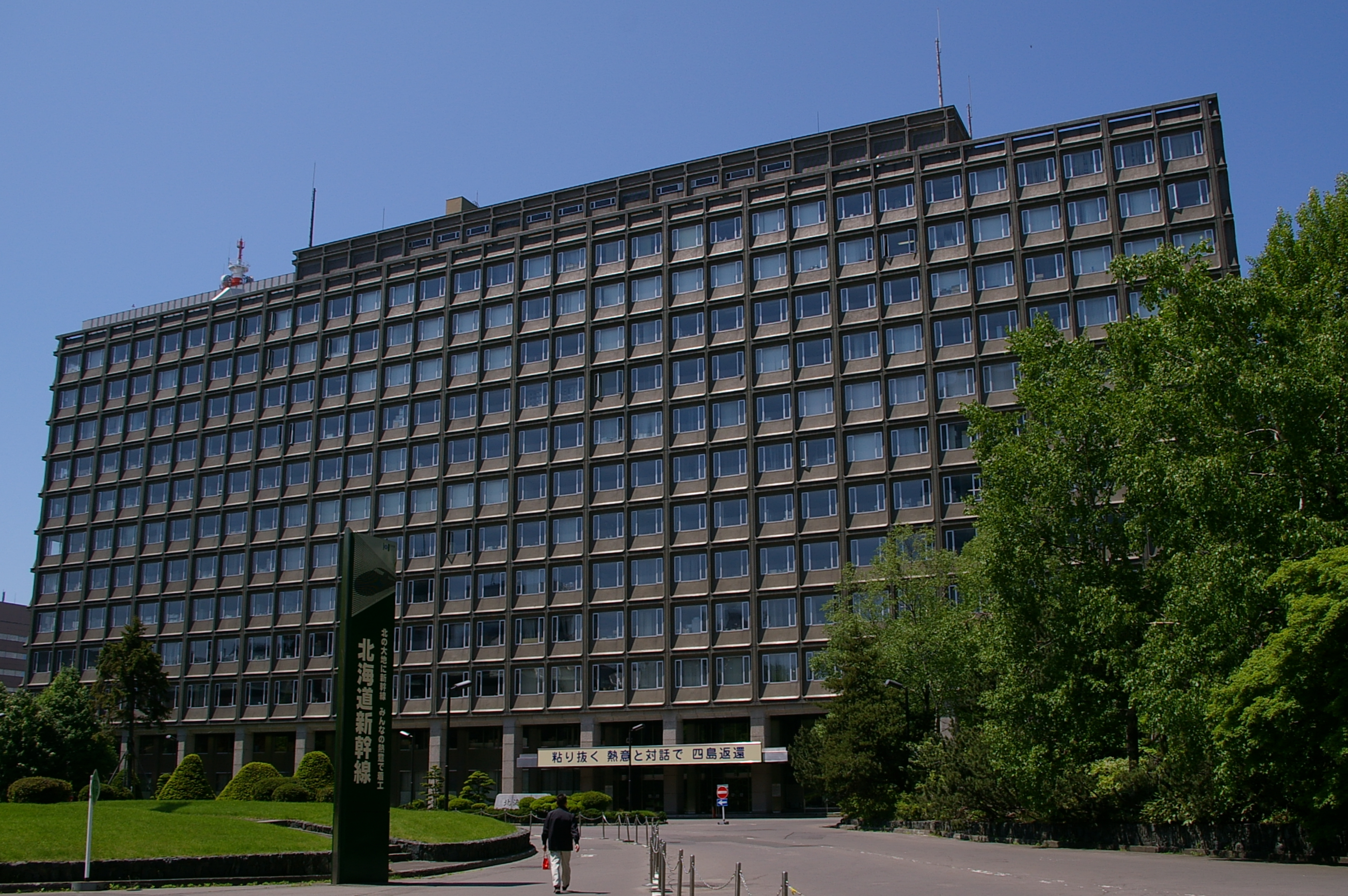 Photograph of Hokkaido Government Office Main Building in Chuo-ku, Sapporo, Hokkaido, Japan.